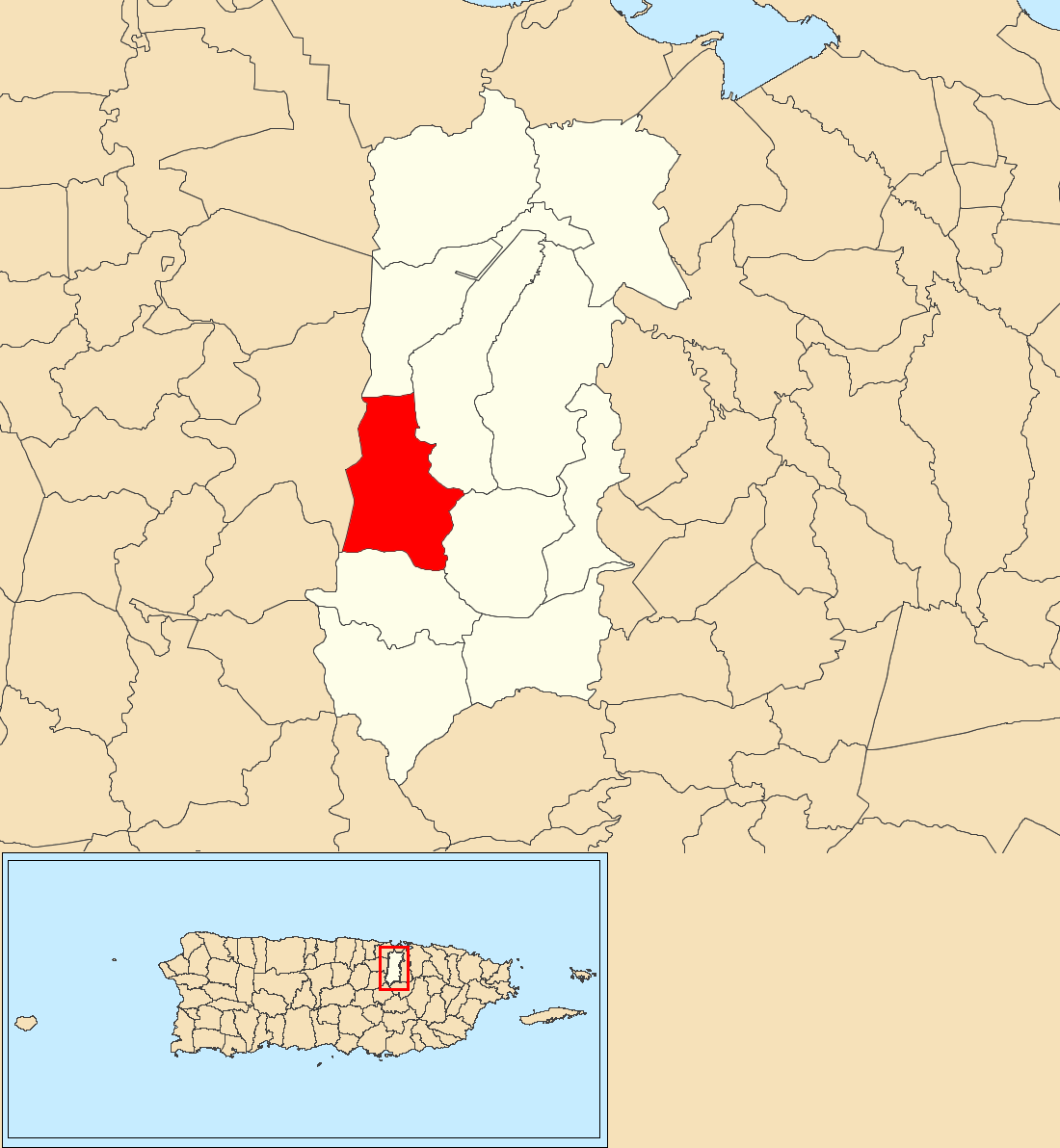 Buena Vista, Bayamón, Puerto Rico locator map